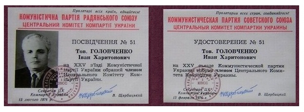 Identity cards - Document of the Central Committee of the Communist party of the Ukrainian SSR within the Communist party, issued in 1976. Ivan Golovchenko